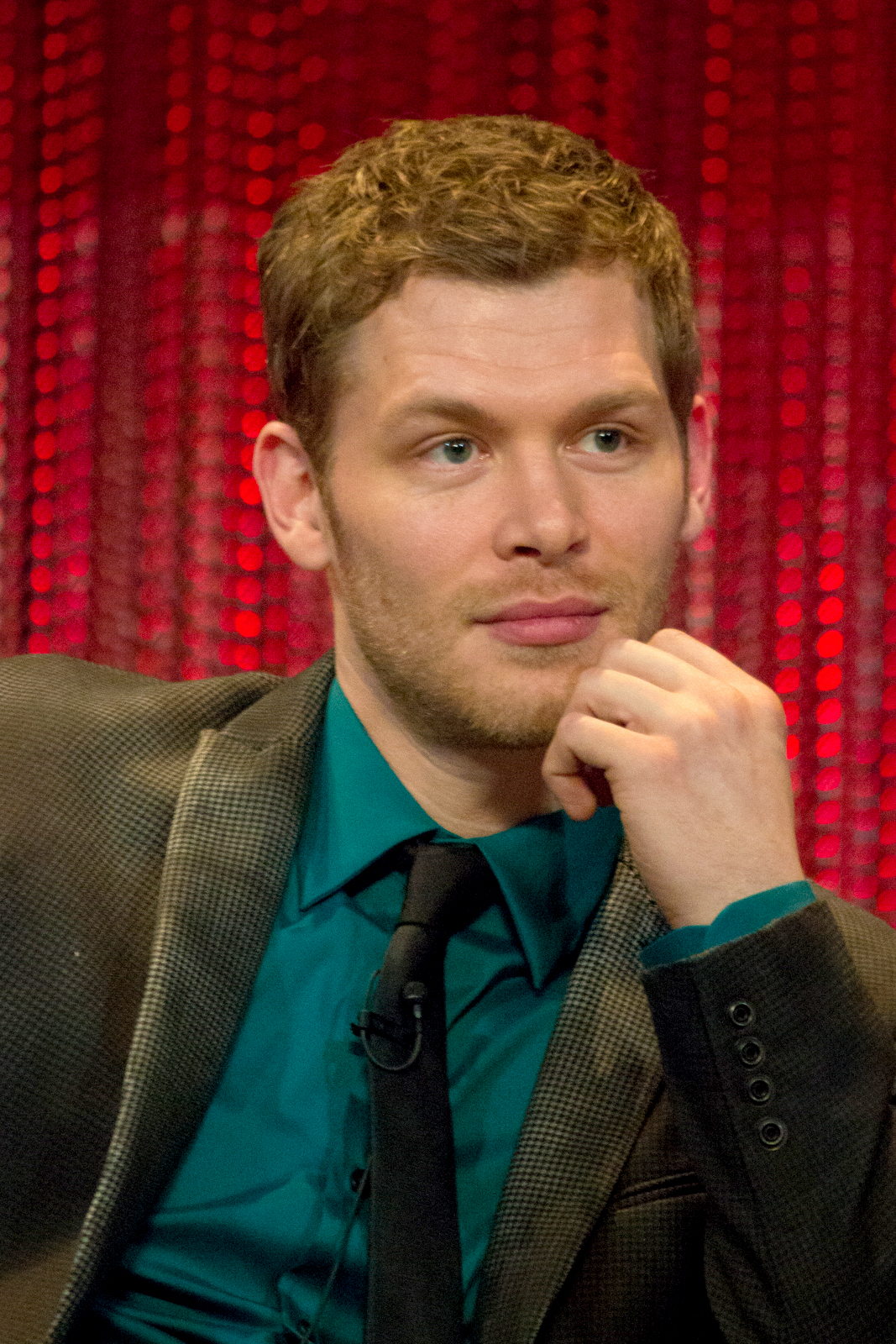 Joseph Morgan at The Paley Center For Media's PaleyFest 2014 Honoring "The Originals"